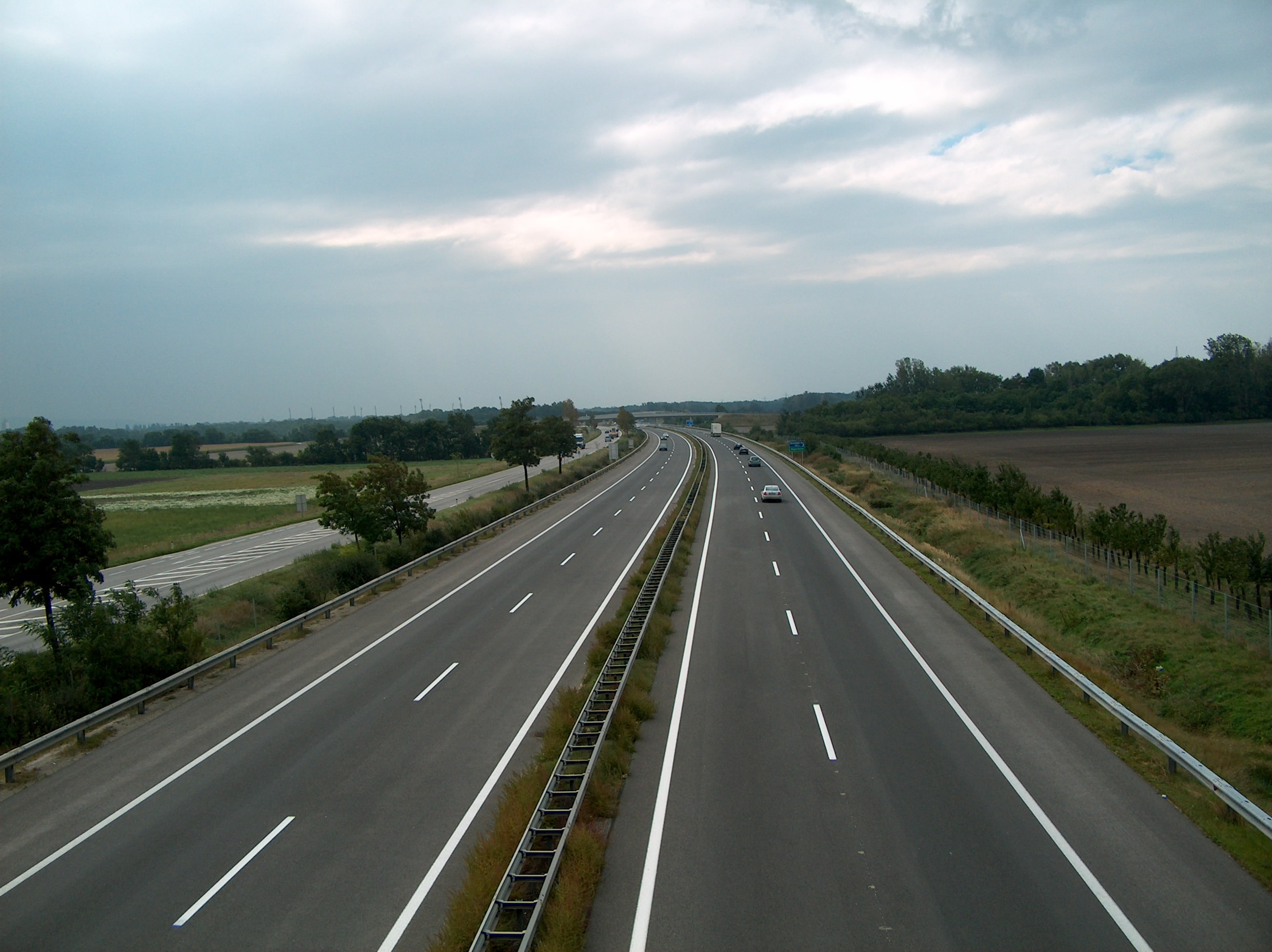 I made the picture of my own. It shows the A3, a motorway in Austria, beteween the interchange Knoten Guntramsdorf and exit Ebreichsdorf. Photo was taken in September 2005.